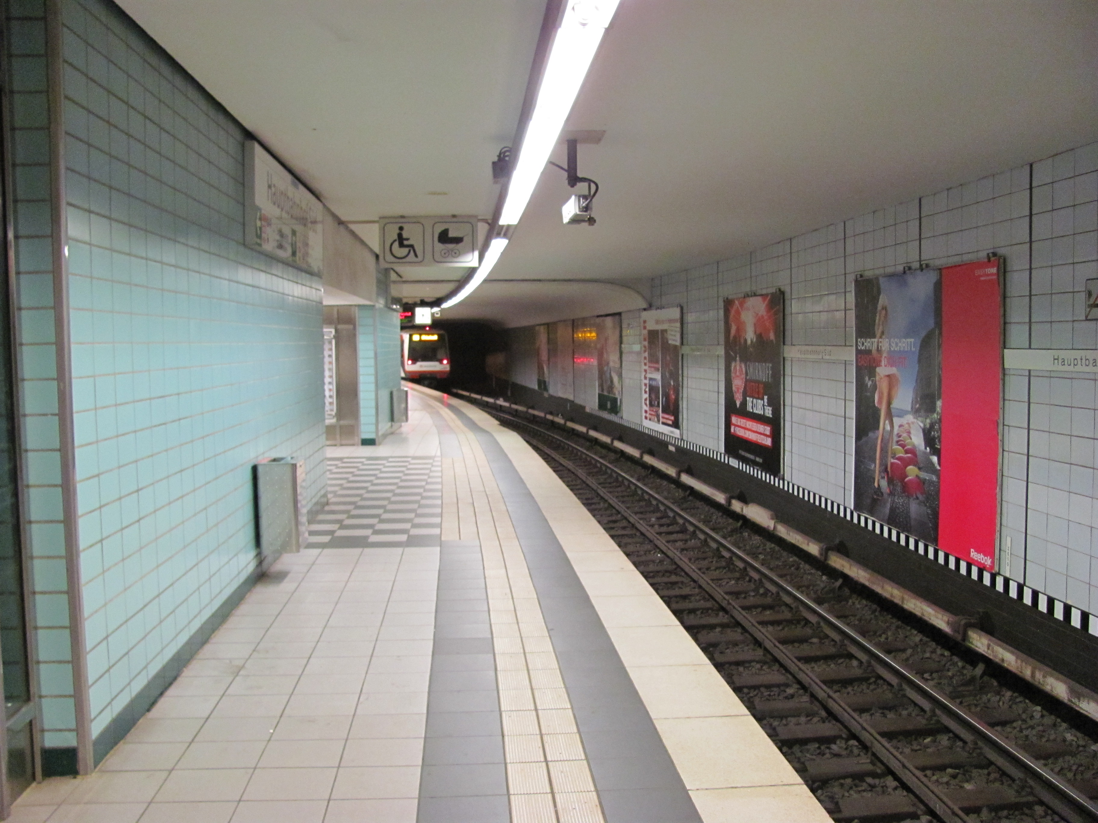 U-Bahn station Hauptbahnhof Süd, line U1, in Hamburg, Germany